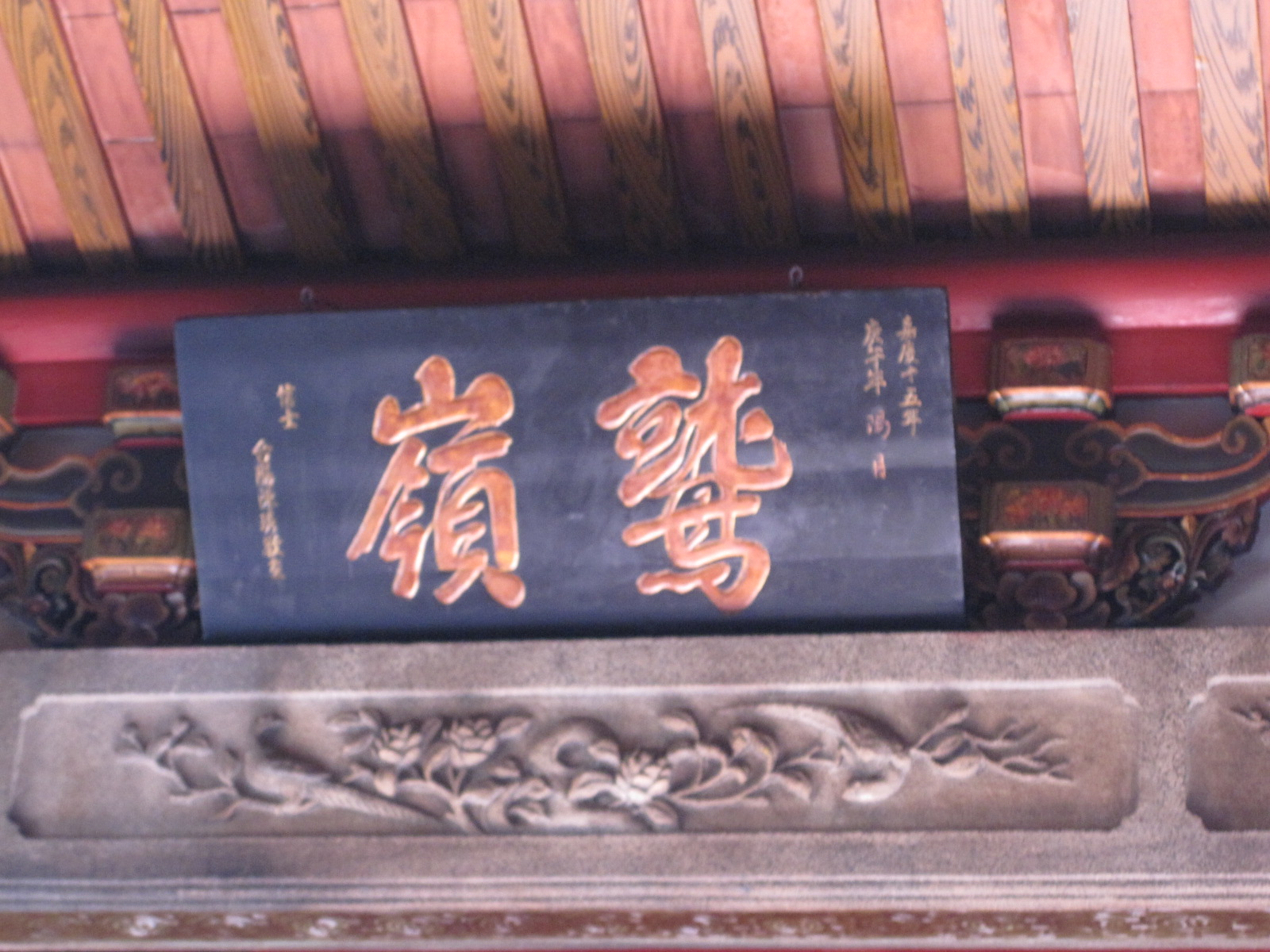 A historical plaque at Temple of Xuan Wu in Tainan, Taiwan.